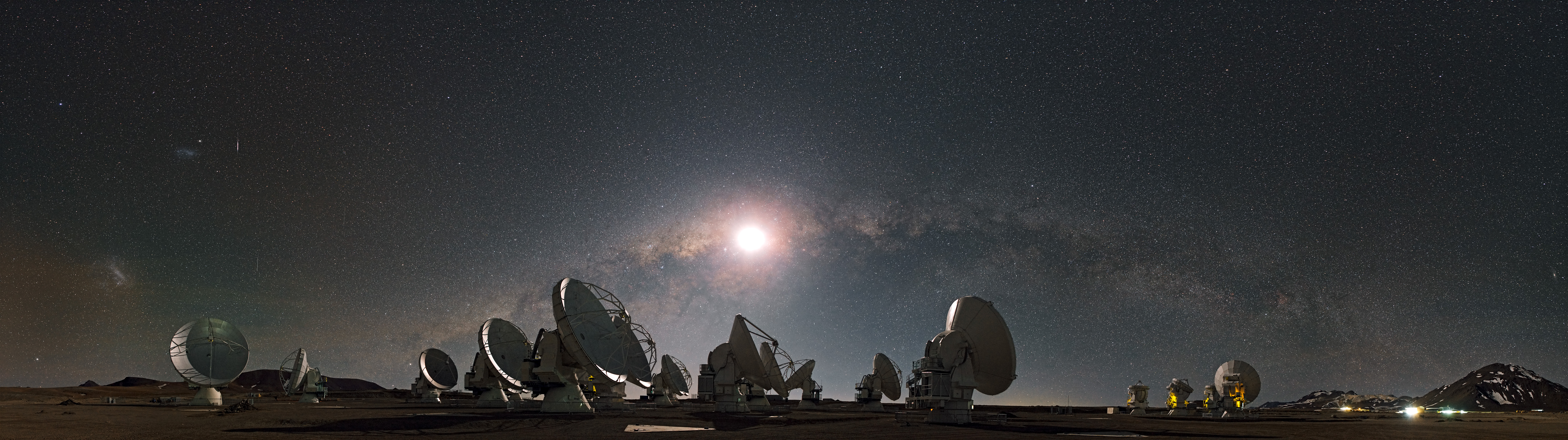 ESO Photo Ambassador Stéphane Guisard captured this astounding panorama from the site of ALMA, the Atacama Large Millimeter/submillimeter Array, in the Chilean Andes. The 5000-metre-high and extremely dry Chajnantor plateau offers the perfect place for this state-of-the-art telescope, which studies the Universe in millimetre- and submillimetre-wavelength light. Numerous giant antennas dominate the centre of the image. When ALMA is complete, it will have a total of 54 of these 12-metre-diameter dishes. Above the array, the arc of the Milky Way serves as a resplendent backdrop. When the panorama was taken, the Moon was lying close to the centre of the Milky Way in the sky, its light bathing the antennas in an eerie night-time glow. The Large and Small Magellanic Clouds, the biggest of the Milky Way's dwarf satellite galaxies, appear as two luminous smudges in the sky on the left. A particularly bright meteor streak gleams near the Small Magellanic Cloud. On the right, some of ALMA’s smaller 7-metre antennas — twelve of which will be used to form the Atacama Compact Array — can be seen. Still further on the right shine the lights of the Array Operations Site Technical Building. And finally, looming behind this building is the dark, mountainous peak of Cerro Chajnantor. ALMA, an international astronomy facility, is a partnership of Europe, North America and East Asia in cooperation with the Republic of Chile. ALMA construction and operations are led on behalf of Europe by ESO, on behalf of North America by the National Radio Astronomy Observatory (NRAO), and on behalf of East Asia by the National Astronomical Observatory of Japan (NAOJ). The Joint ALMA Observatory (JAO) provides the unified leadership and management of the construction, commissioning and operation of ALMA.